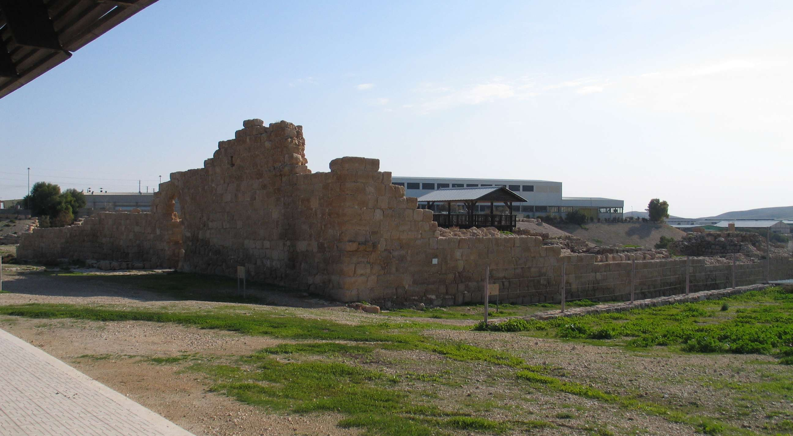 St Euthymius Monastery, Maale Adumim.